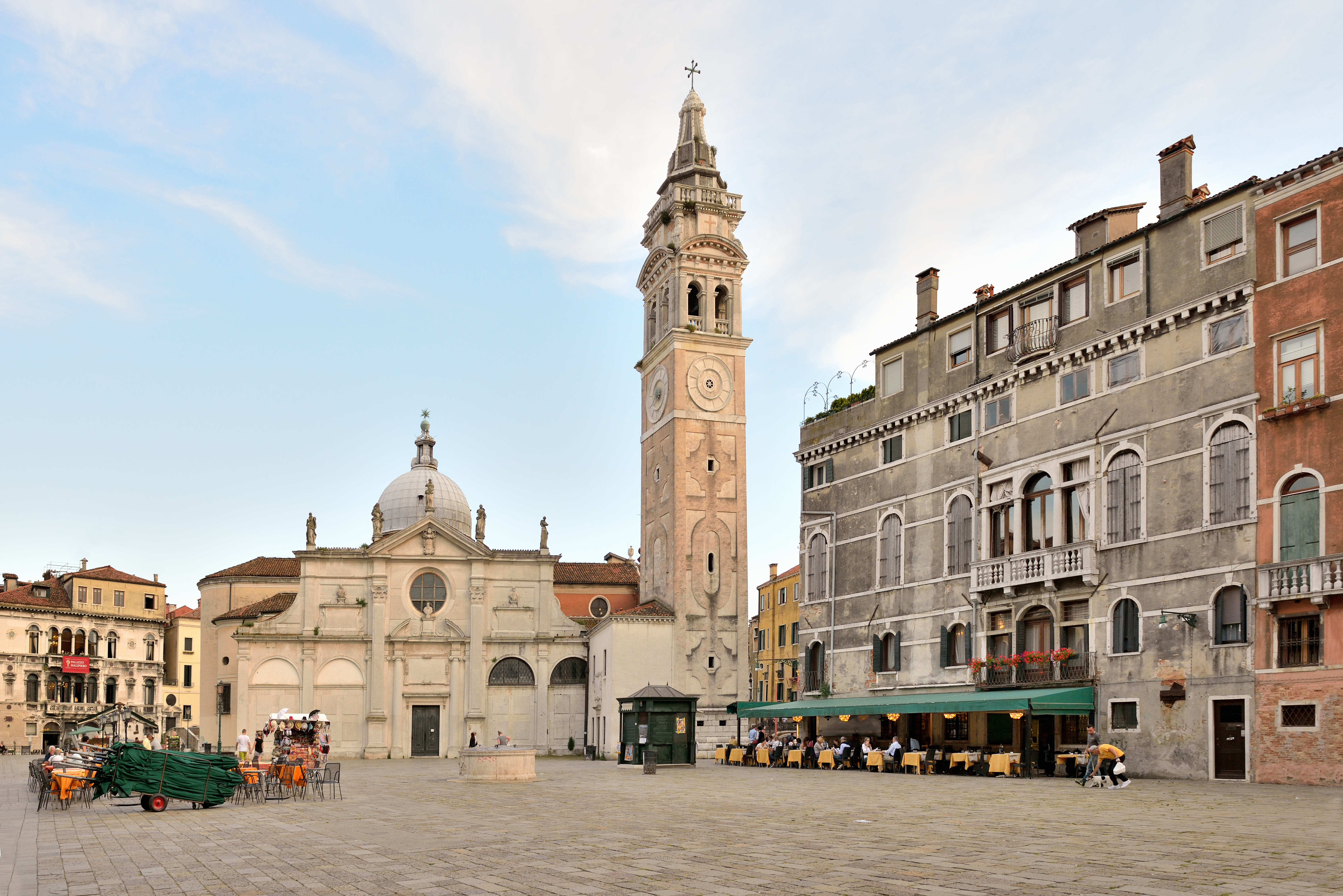 The Santa Maria Formosa church, in Venice at sunset.